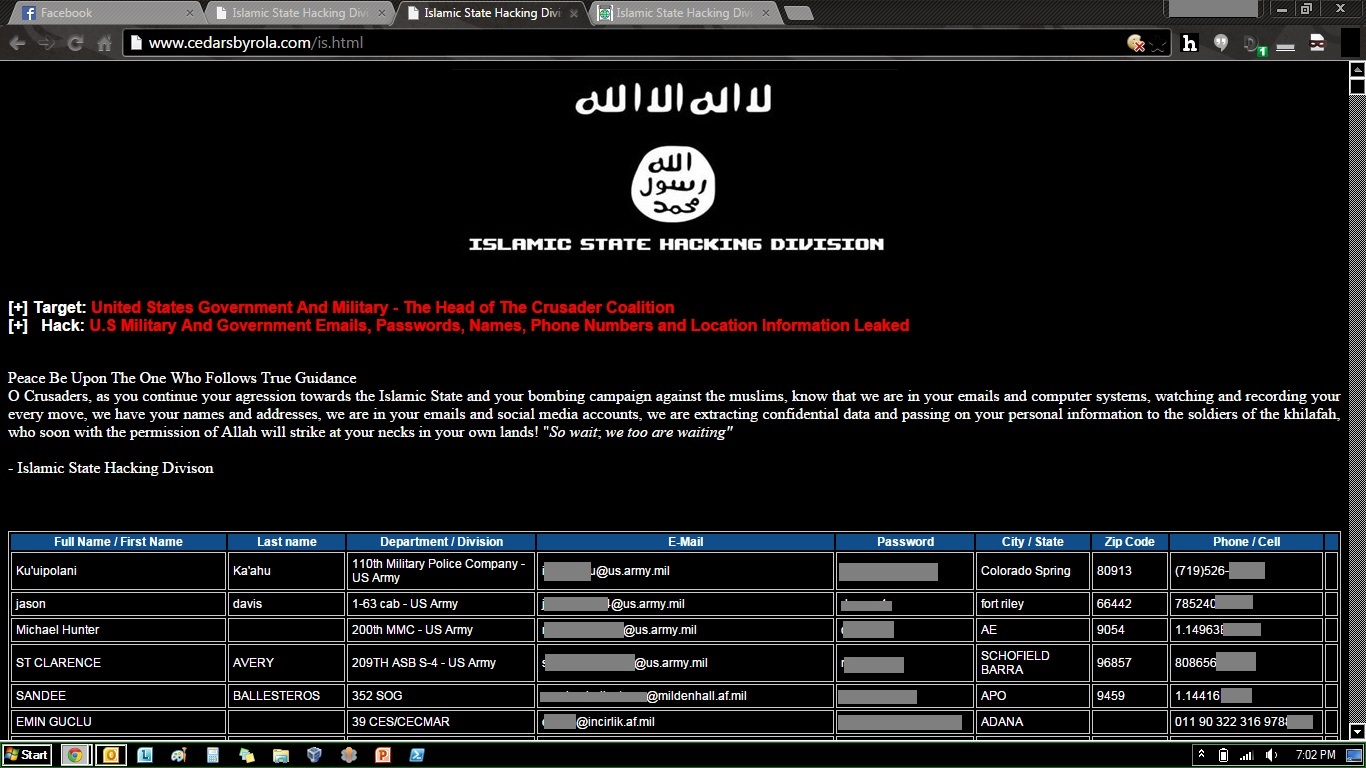 Screen Grab of hacked results posted online by ISHD